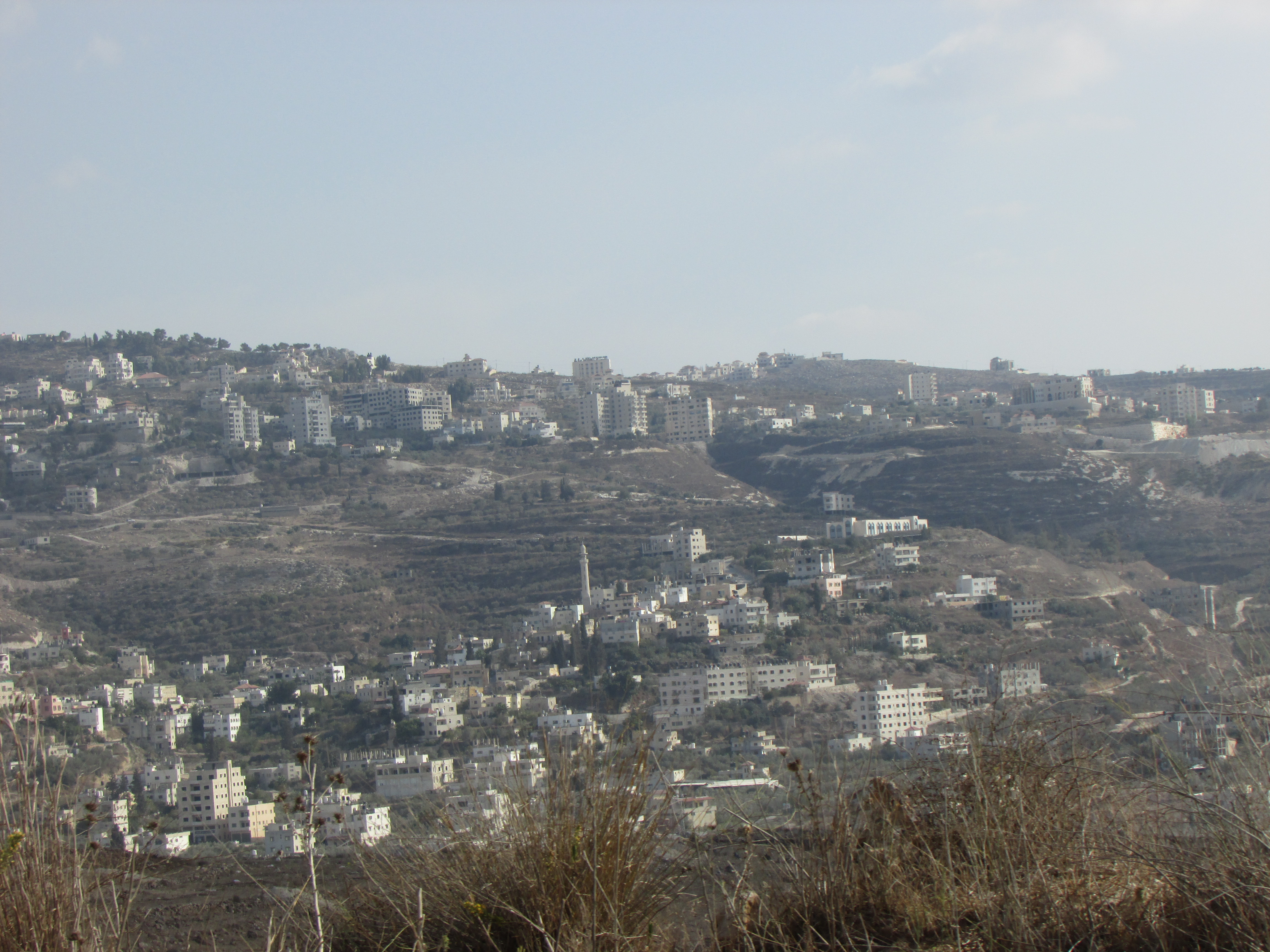 Beit Iba from the north. Behind are buildings of the extension west of Nablus on the road from Nablus to Tulkarm.